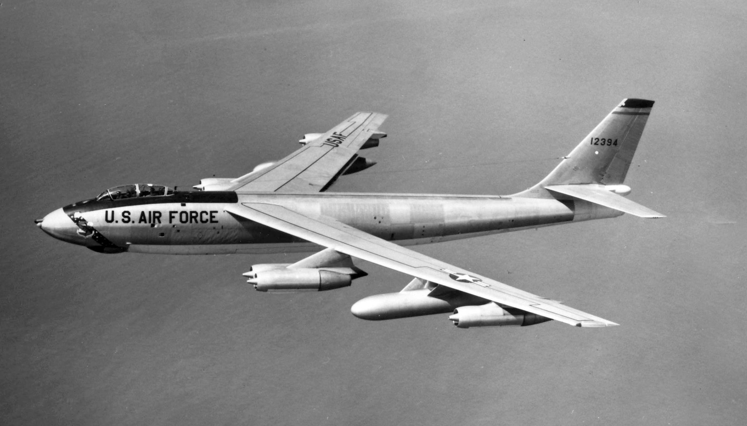 22d Bombardment Wing Boeing B-47E-55-BW Stratojet 51-2394 Main page